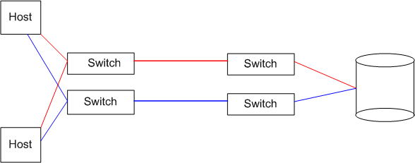 Dual fabric (fiber channel)